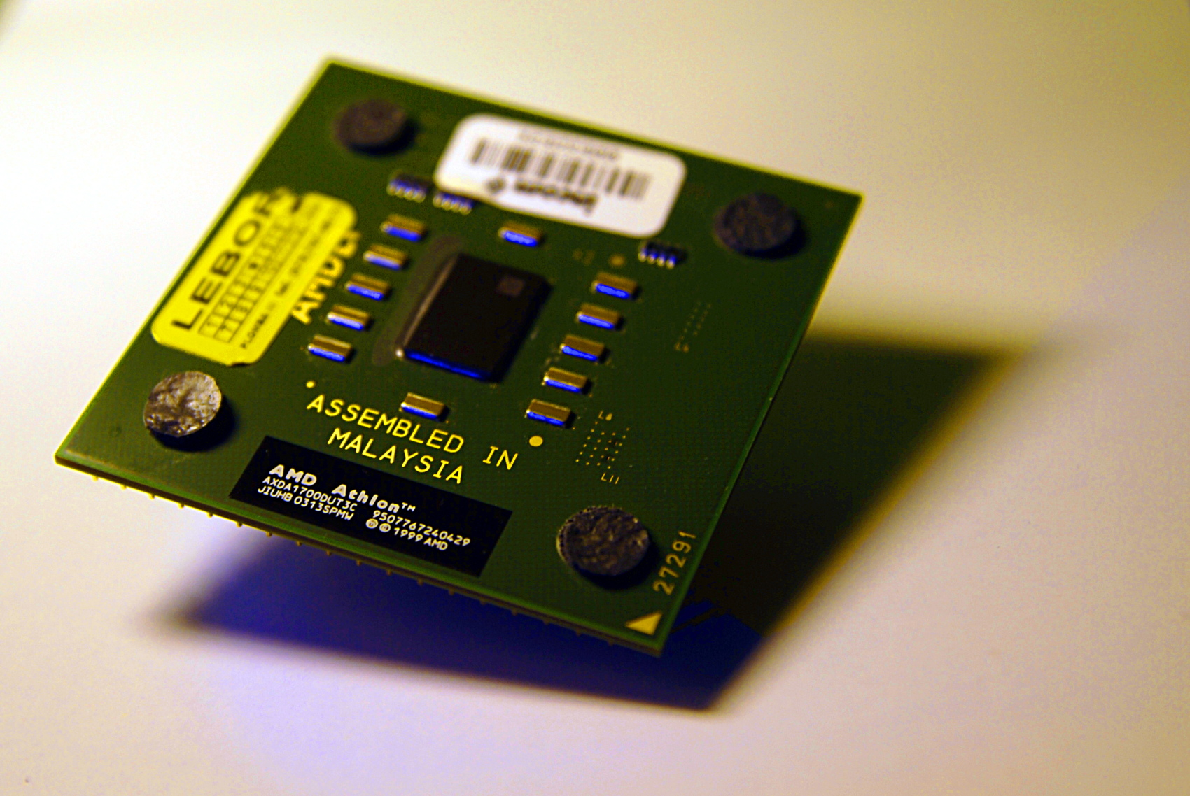 AMD Athlon XP 1700 MHz